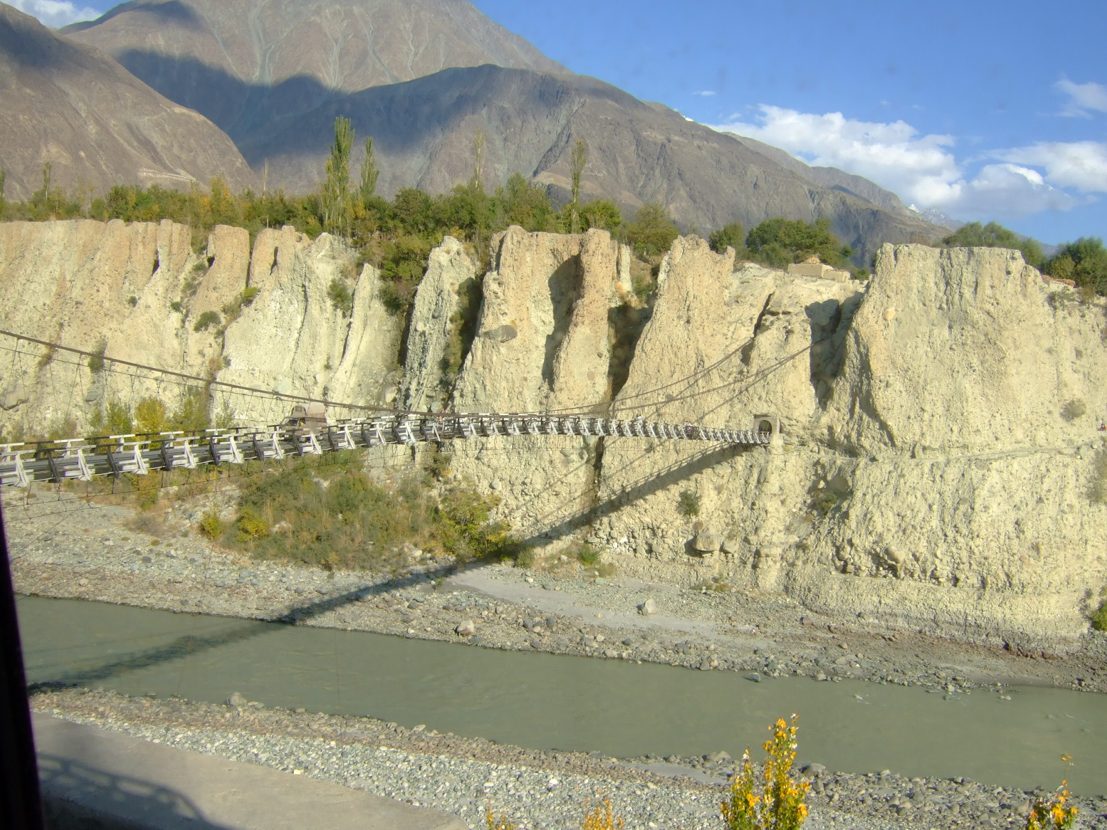 The Danyor bridge is on the river Hunza near Danyor town. The bridge starts from a tunnel which is very famous in the area. Hunza river view from Karakorum University. – The earliest suspension bridges were made of ropes or vines covered with pieces of bamboo. In cables hang from towers that are attached to caissons or cofferdams.